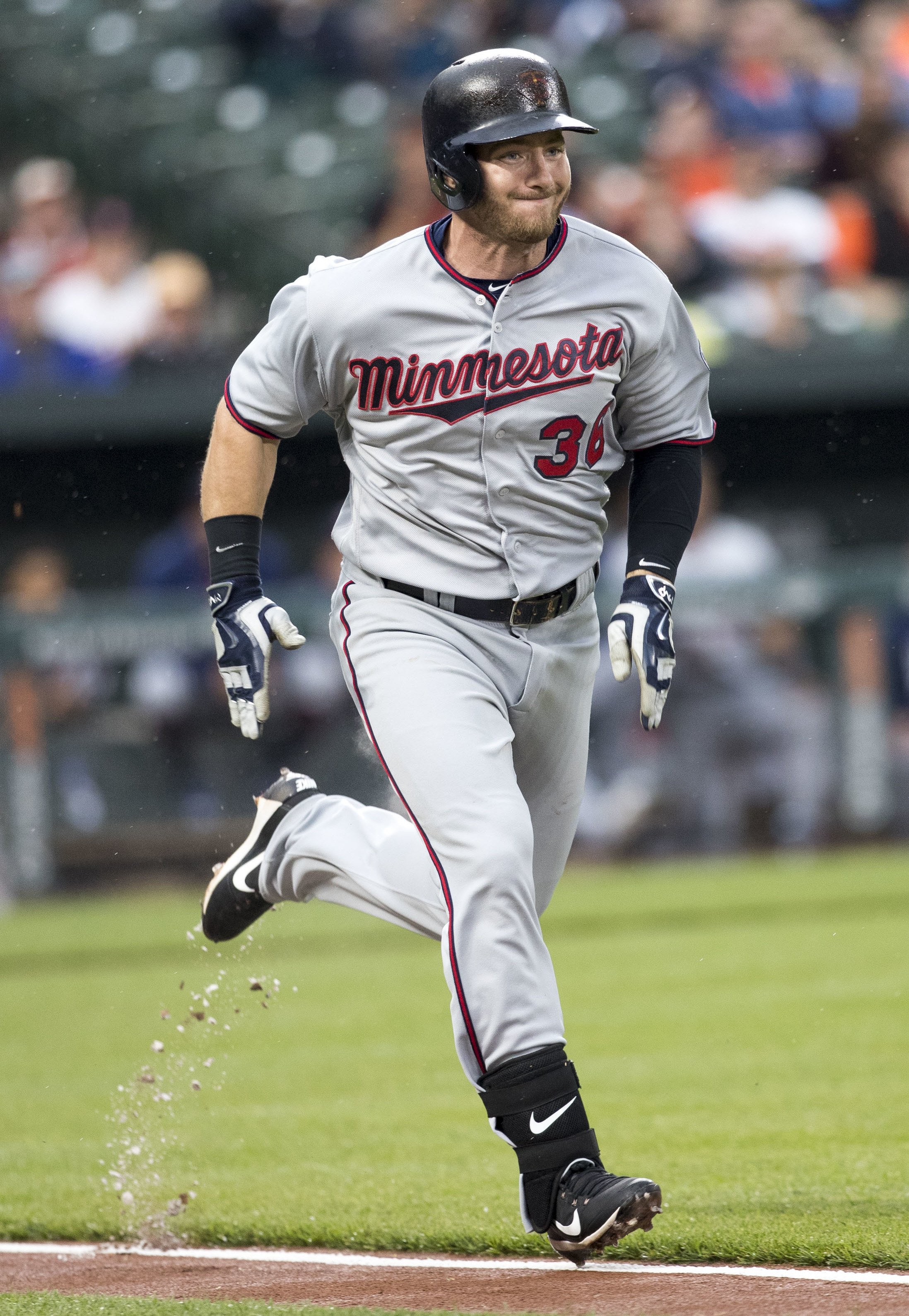 Twins at Orioles 5/23/17